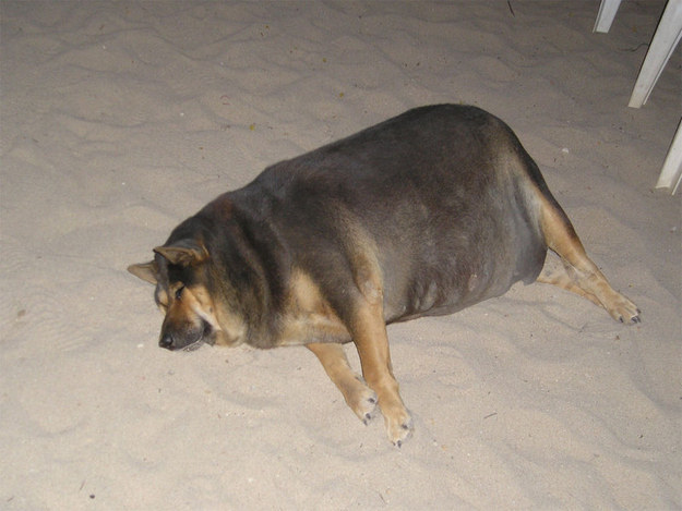 Notable for being an incredibly fat dog.